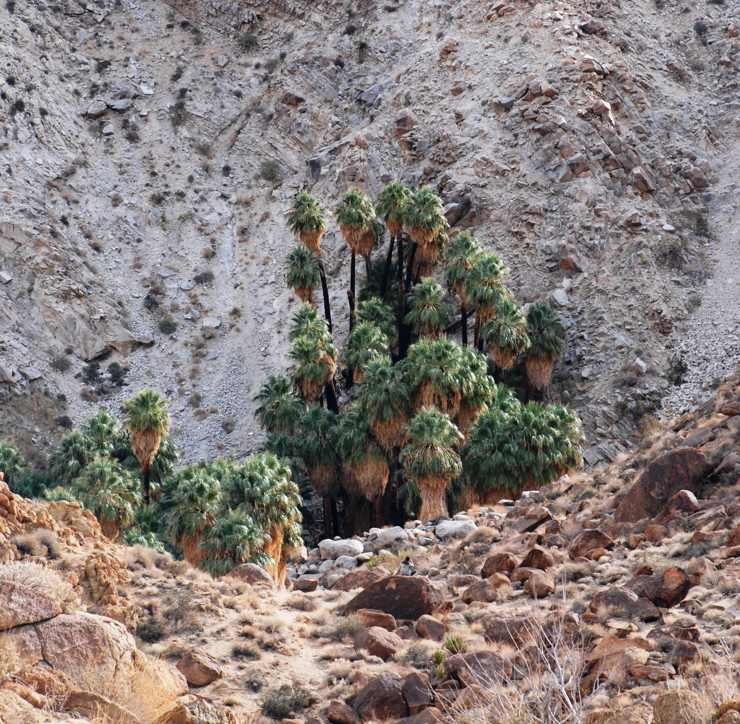 Desert Fan Palms (Washingtonia filifera) at 49 Palm Oasis in Joshua Tree National Park